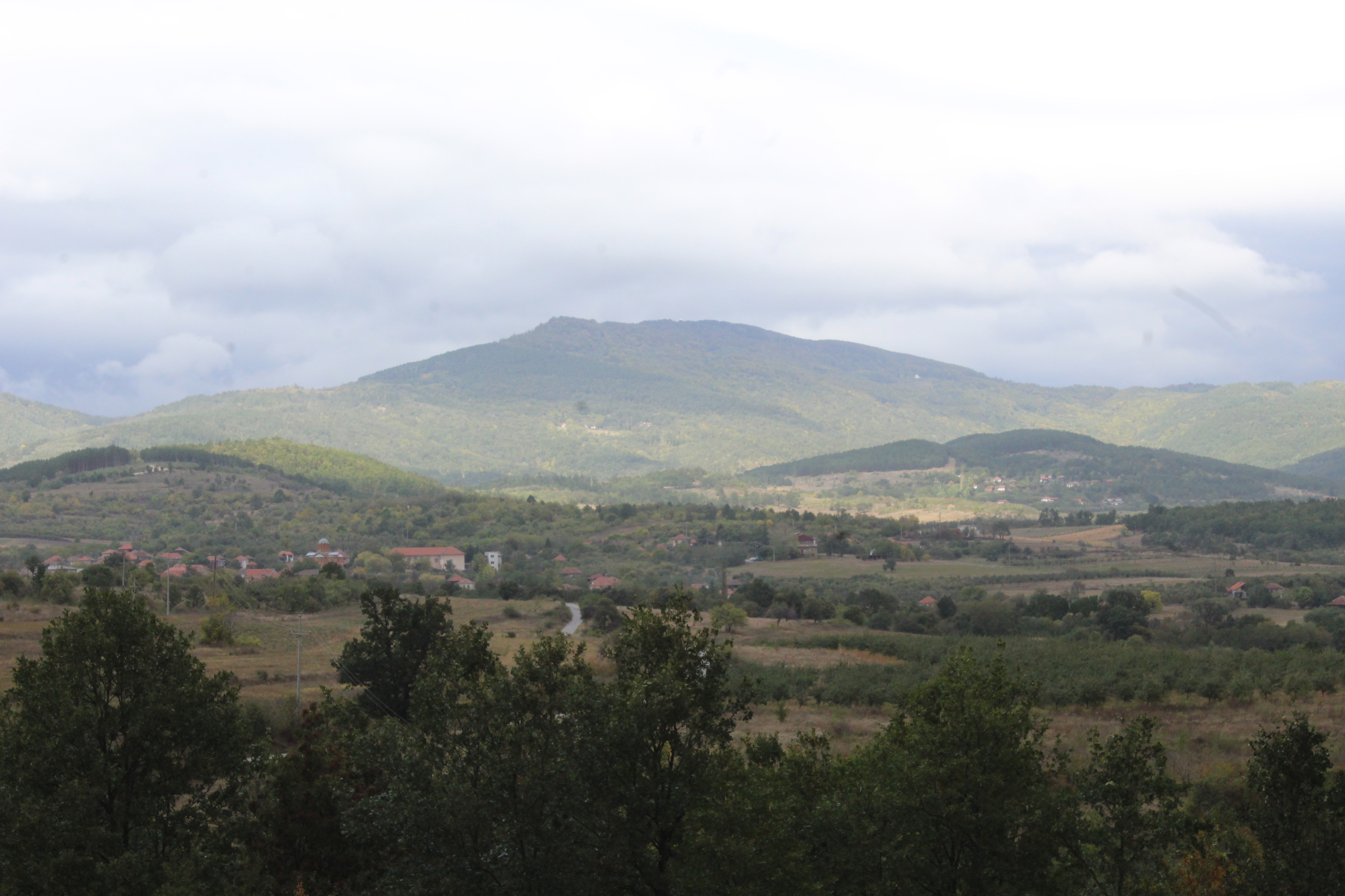 Vidojevica mountain. Srpski (latinica): Planina Vidojevica.